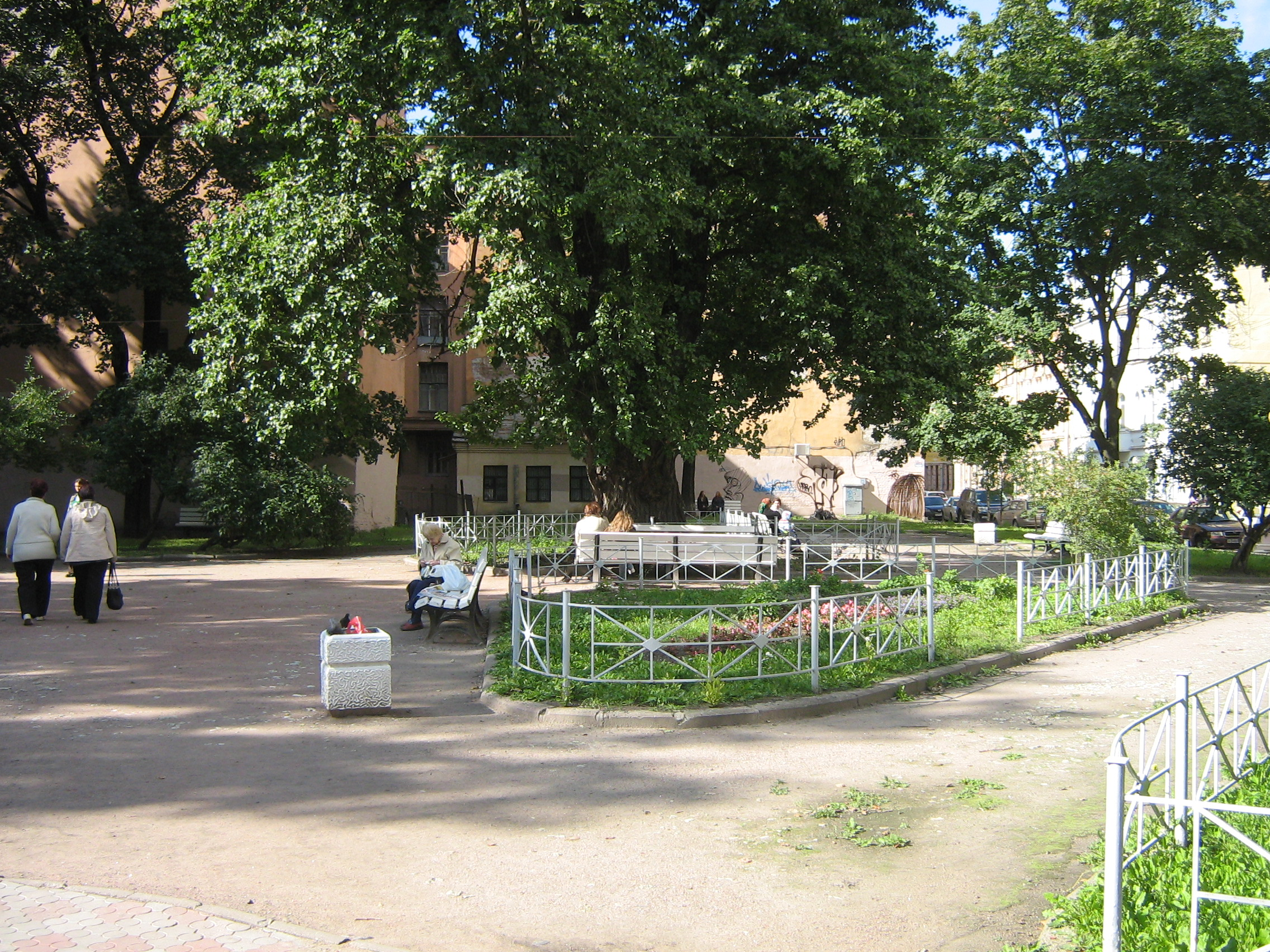 Saint Petersburg (Russia), Bolshoy Prospekt (Petrograd Side).